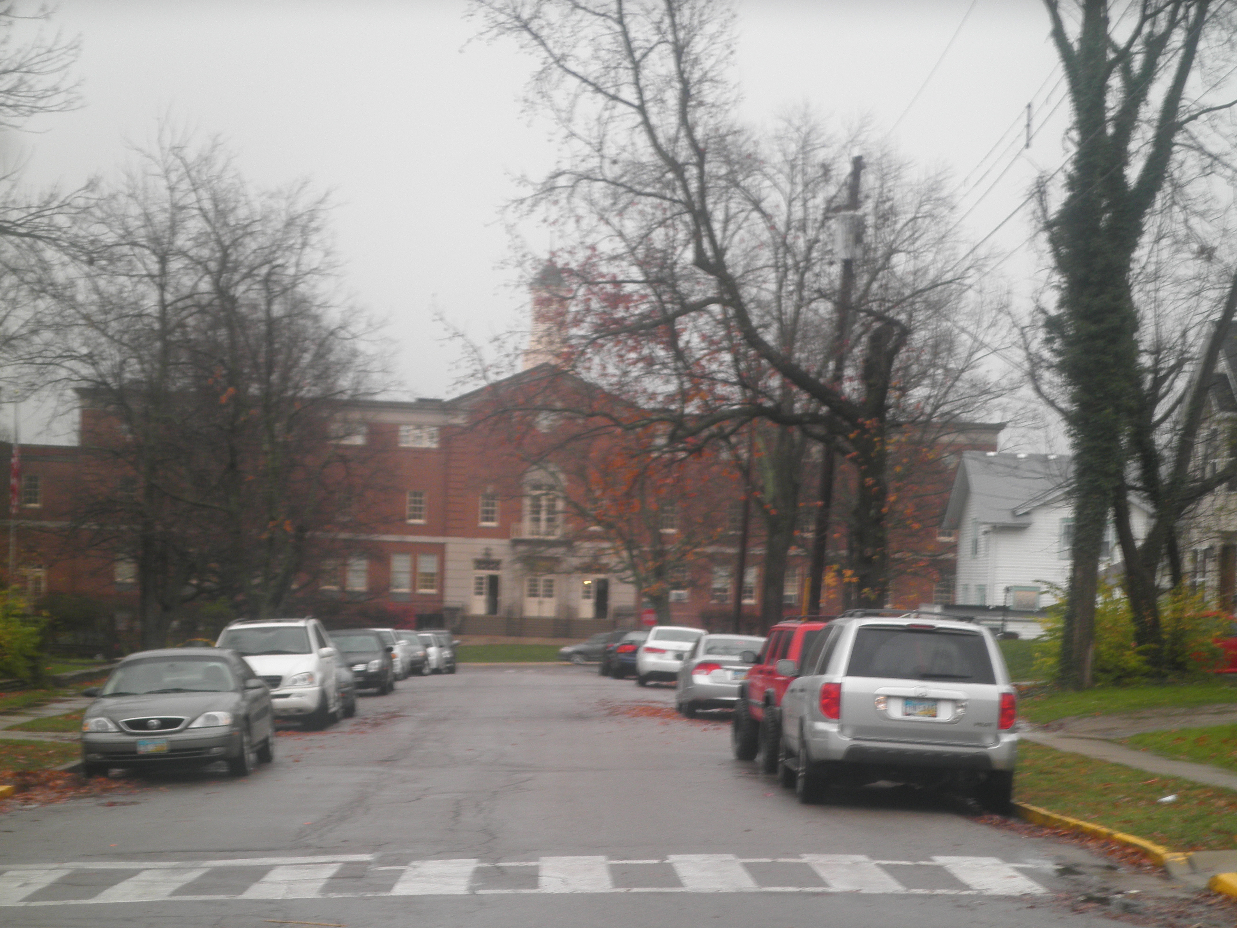 Current view of Withrow Courts from front entrance.